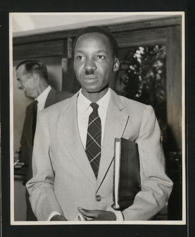 Julius Nyerere as leader of the Legislative Council of Tanganyika.